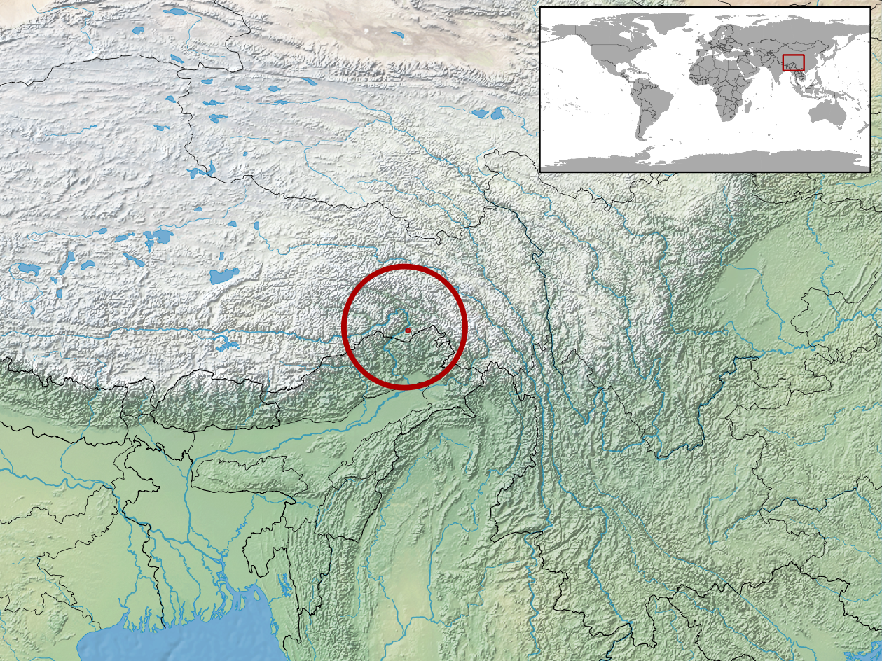 geographic distribution of Calotes medogensis (Native: China (Tibet [or Xizang]))